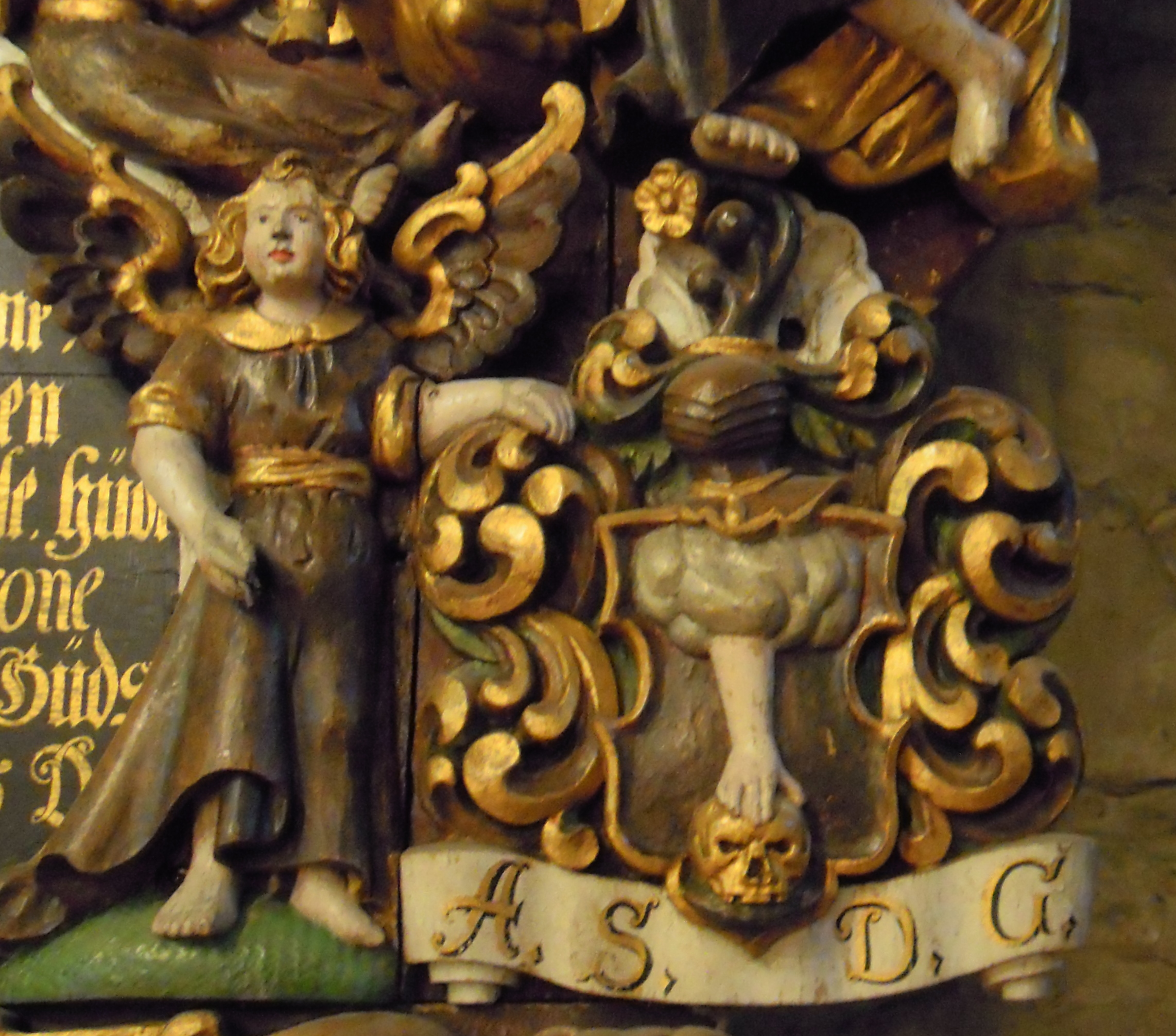 Agnete Sørensdatter Godtzen (heraldry) Stavanger Cathedral, Norway